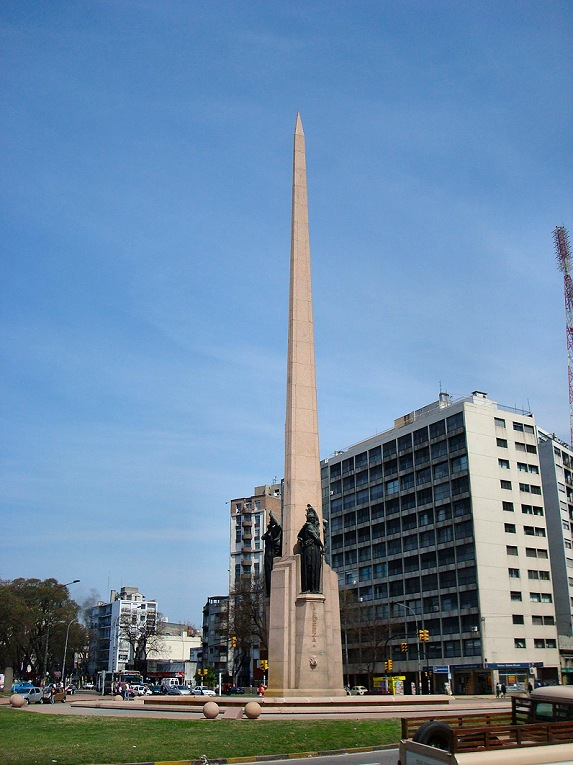 The "Obelisk of Montevideo" located at the intesection of Artigas Boulevard and 18 de Julio Avenue. Its official name is Obelisco a los consituyentes de 1830.